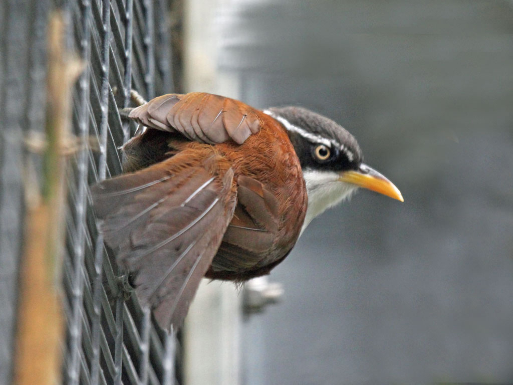 Chestnut-backed Scimitar-babbler (Pomatorhinus montanus) - San Diego Zoo